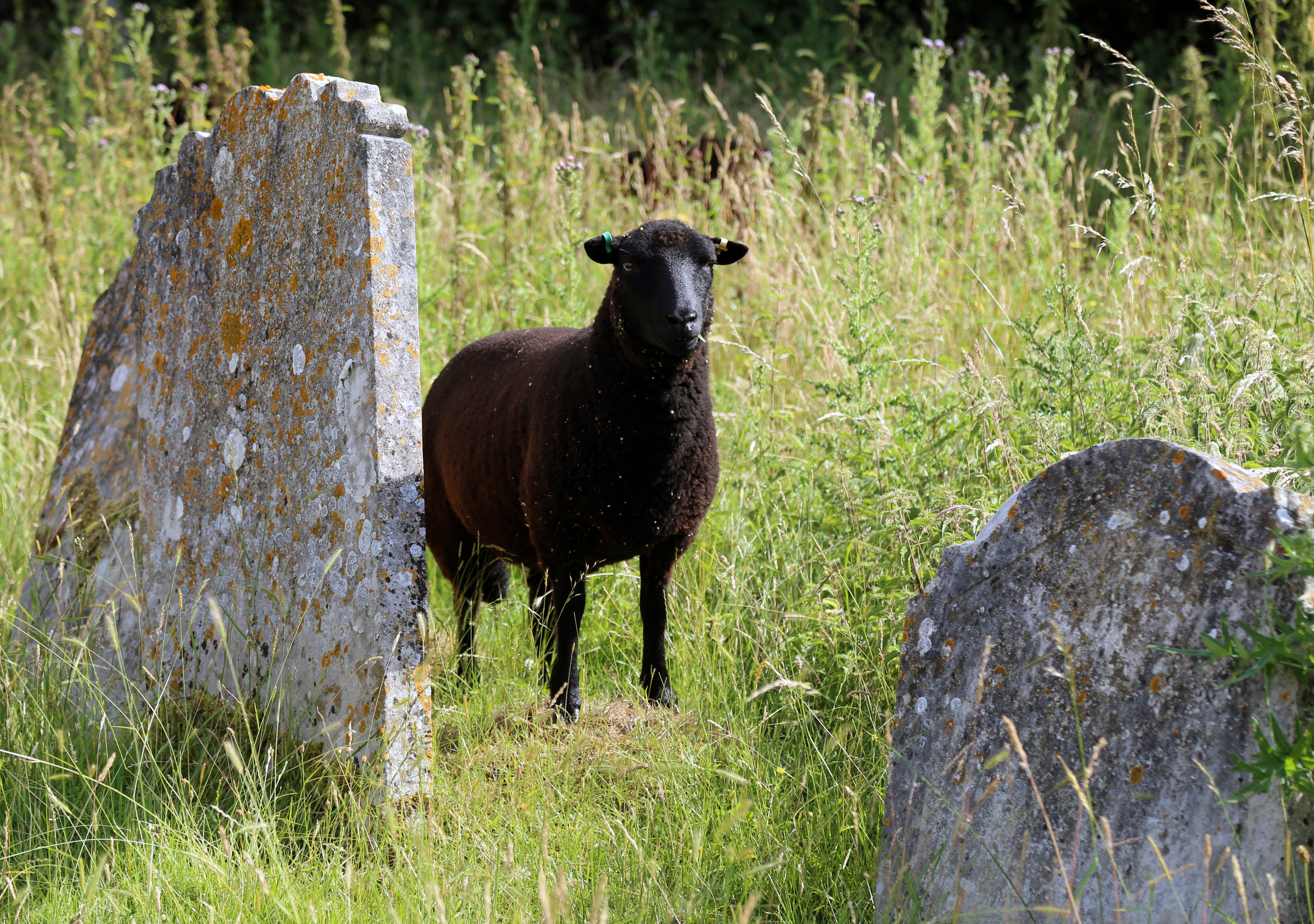 Churchyard sheep at the the Church of St Mary the Virgin at Shipley, West Sussex, England